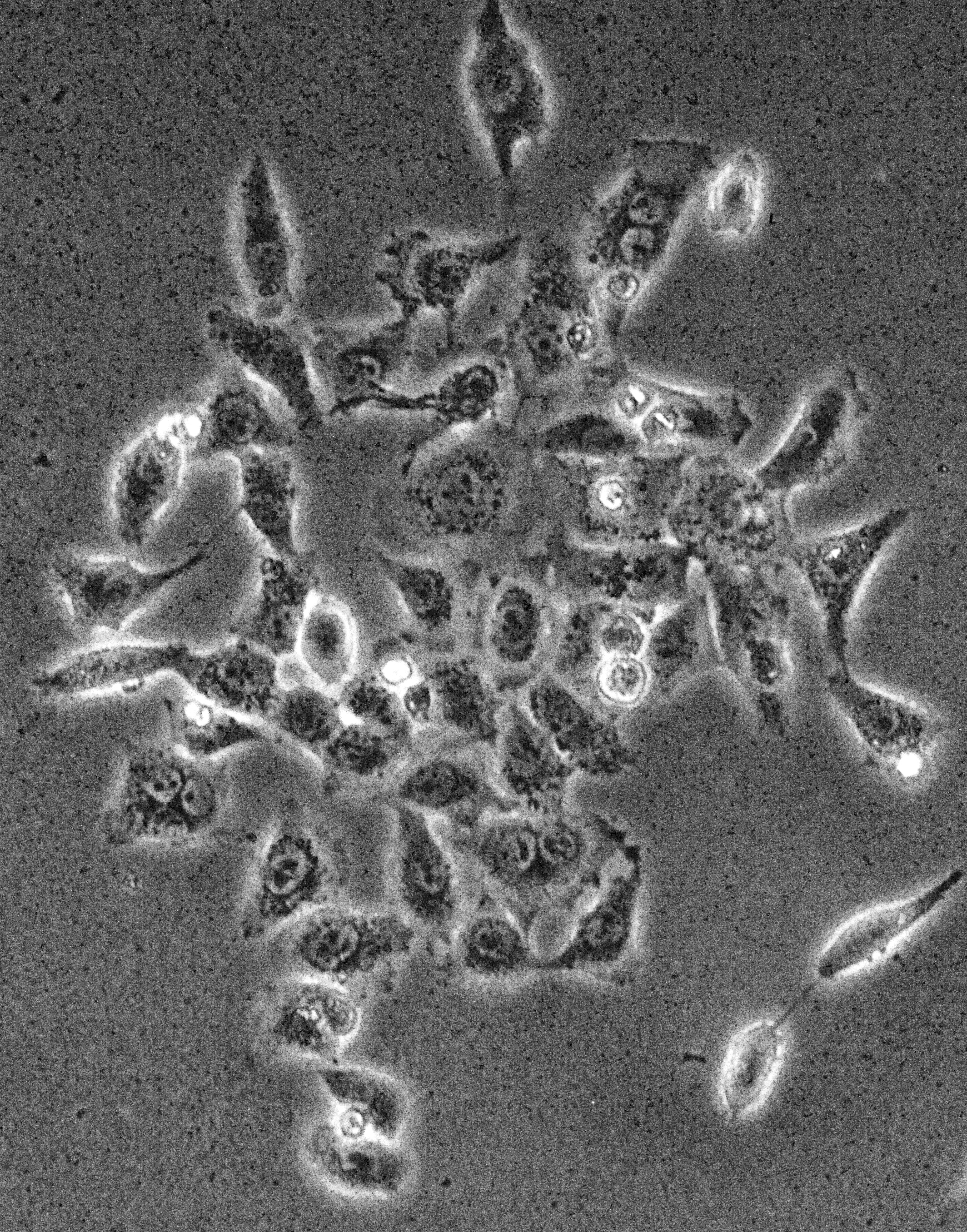 Image provided by EnCor Biotechnology.